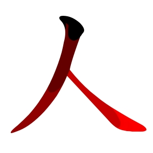 This 人-red.png image depicting the stroke order of the character 人 (Traditional Radical 009) in red.png style. This image is part of the Commons:Stroke Order Project(zh-de-ja), a project to create a complete set of images depicting the right stroke order (Protocols).The 214 Kangxi radicals have been completed. We currently work on the most frequent characters. Help is welcome.